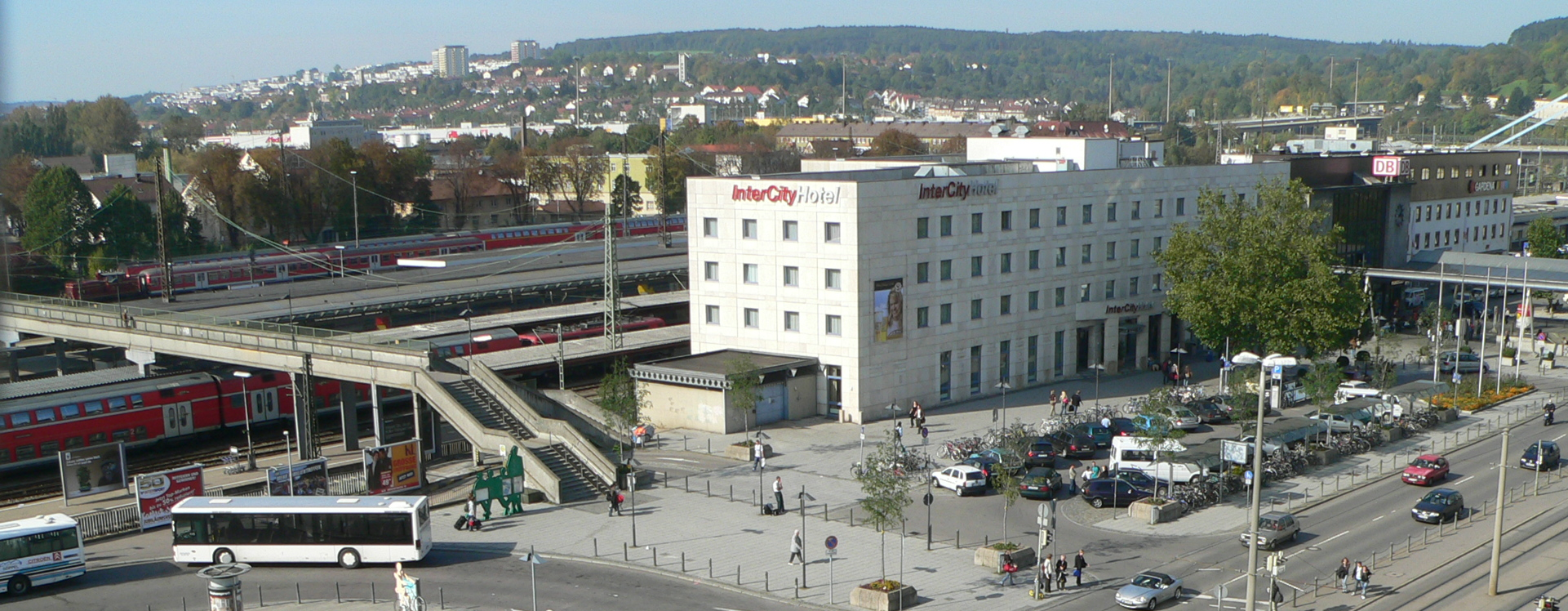 Central station in Ulm, Germany